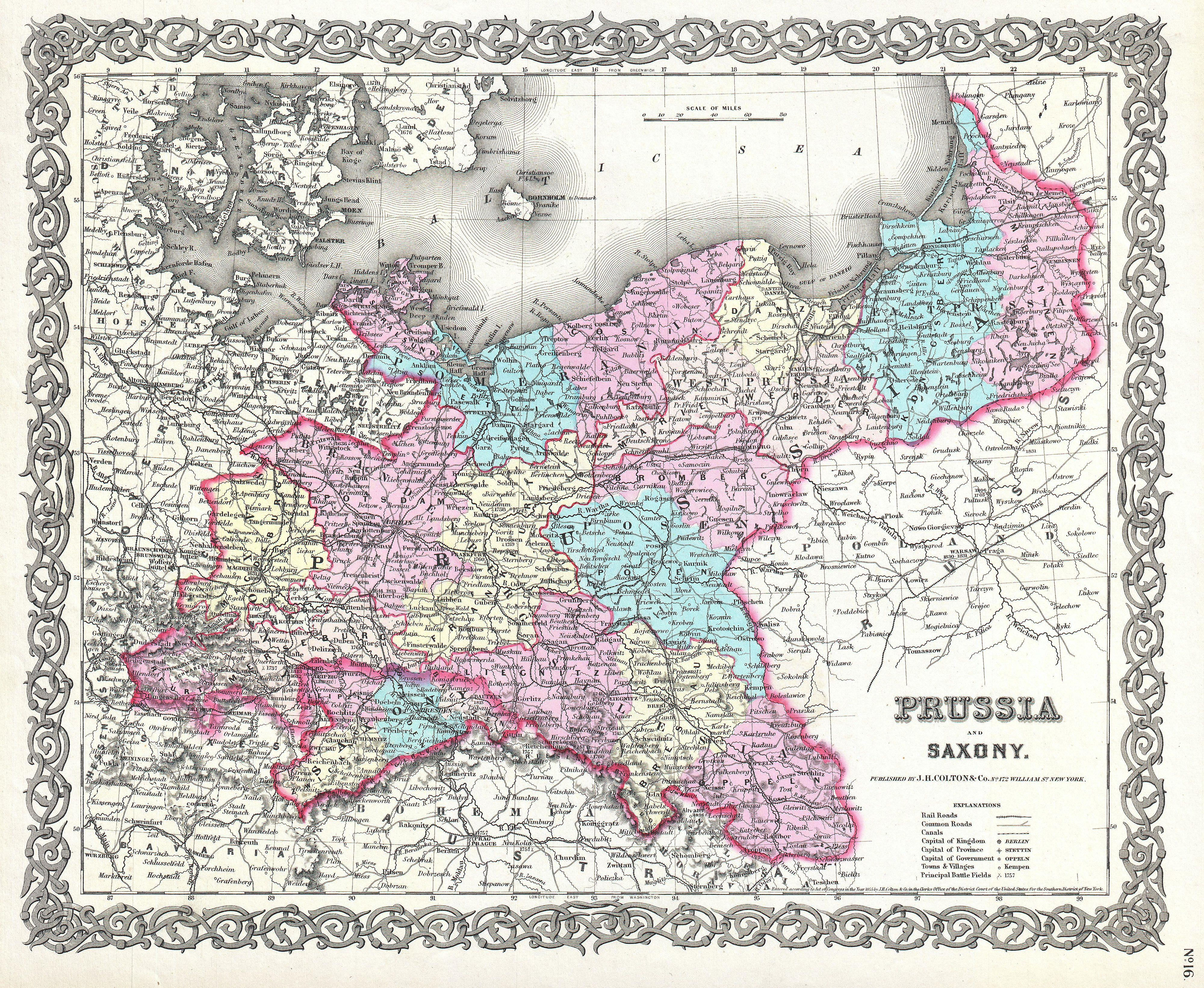 This is the very rare 1856 issue of J. H. Colton’s map of Prussia and Saxony. Covers what is today northwestern Germany. Divided and color coded according to district. Shows major roadways and railroads as well as geological features such as lakes and rivers. Like most Colton maps this map is dated 1855, but most likely was issued in the 1856 issue of Colton’s Atlas . Dated and copyrighted: “Entered according to the Act of Congress in the Year of 1855 by J. H. Colton & Co. in the Clerk’s Office of the District Court of the United States for the Southern District of New York.” Published from Colton’s 172 William Street Office in New York City, NY.